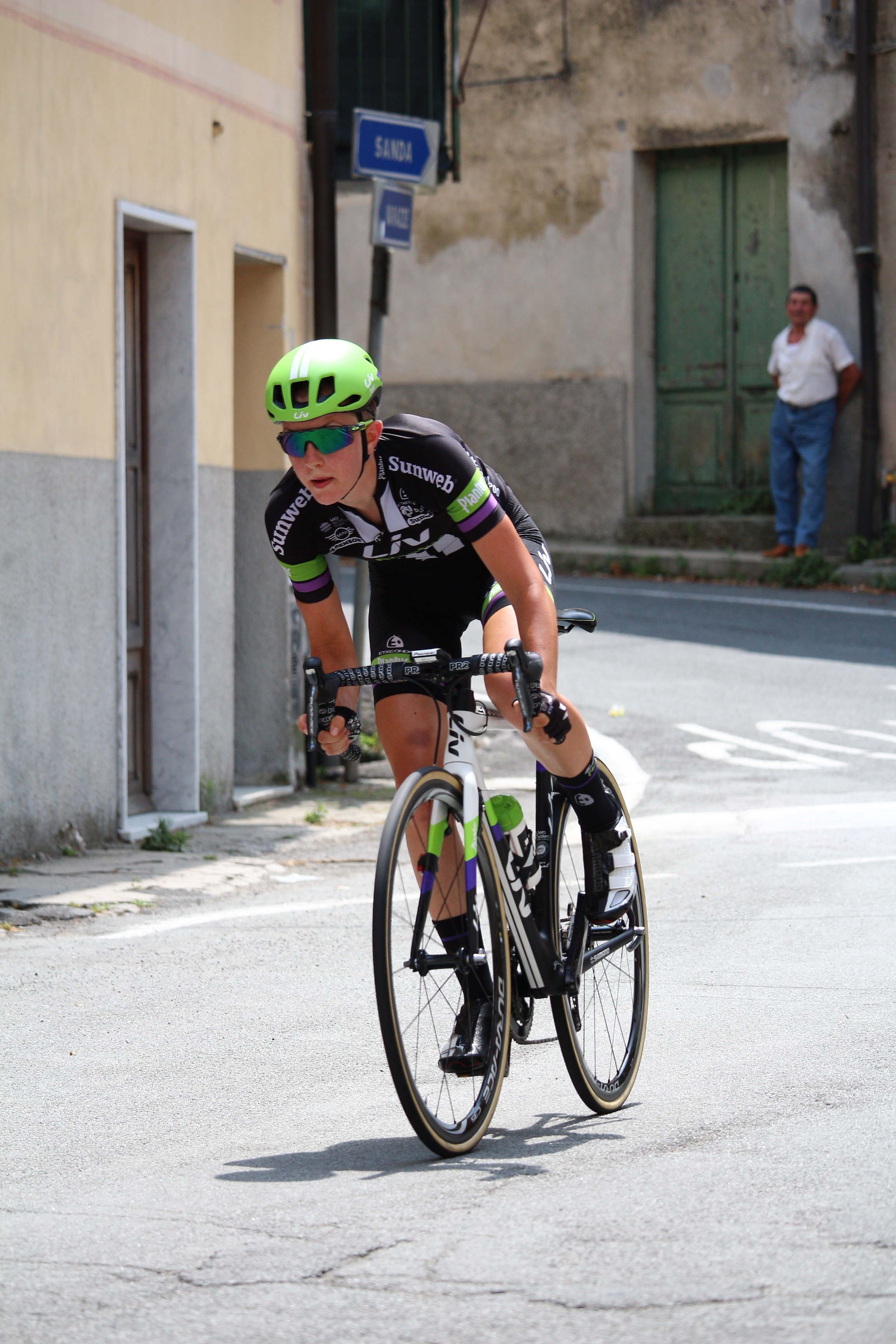 Molly Weaver during the 7th stage of Giro Rosa 2016 in Stella San Martino